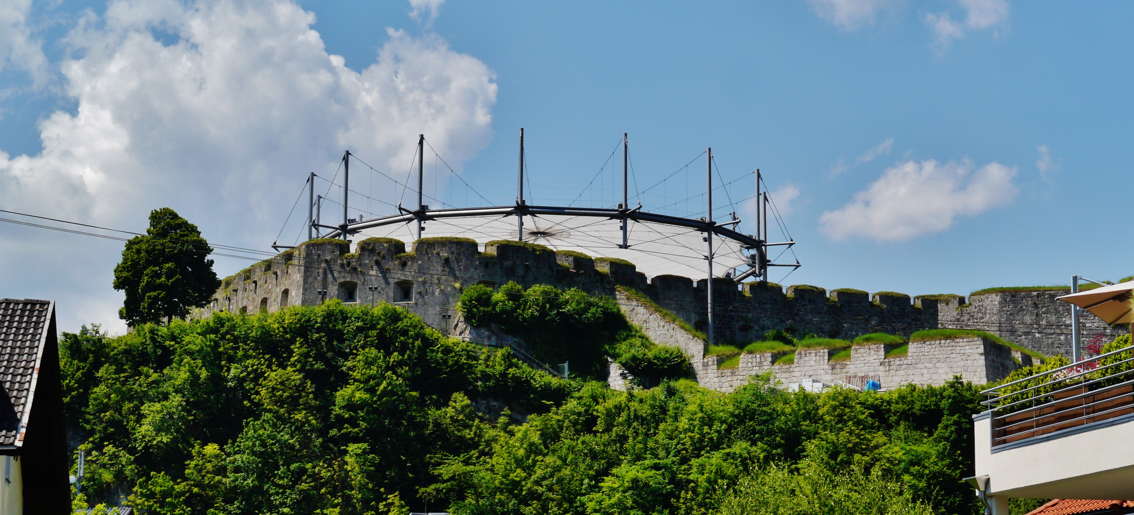 Kufstein Fortress, Kufstein, Tyrol, Austria